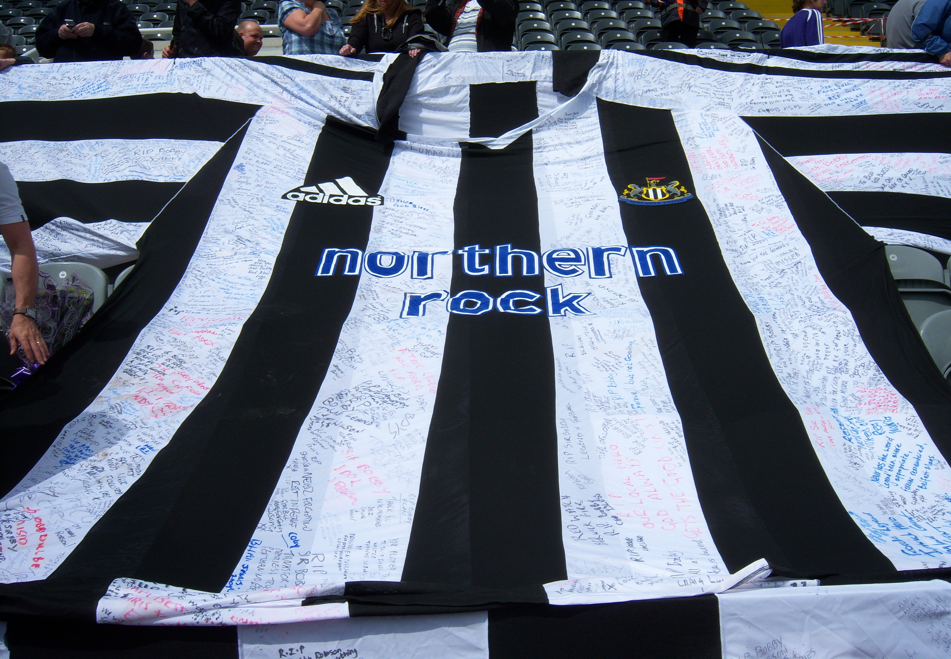 Tributes to Sir Bobby Robson laid by fans inside St James' Park in Newcastle upon Tyne the day after it was announced he had died.